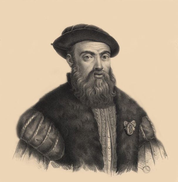 Ferdinand Magellan